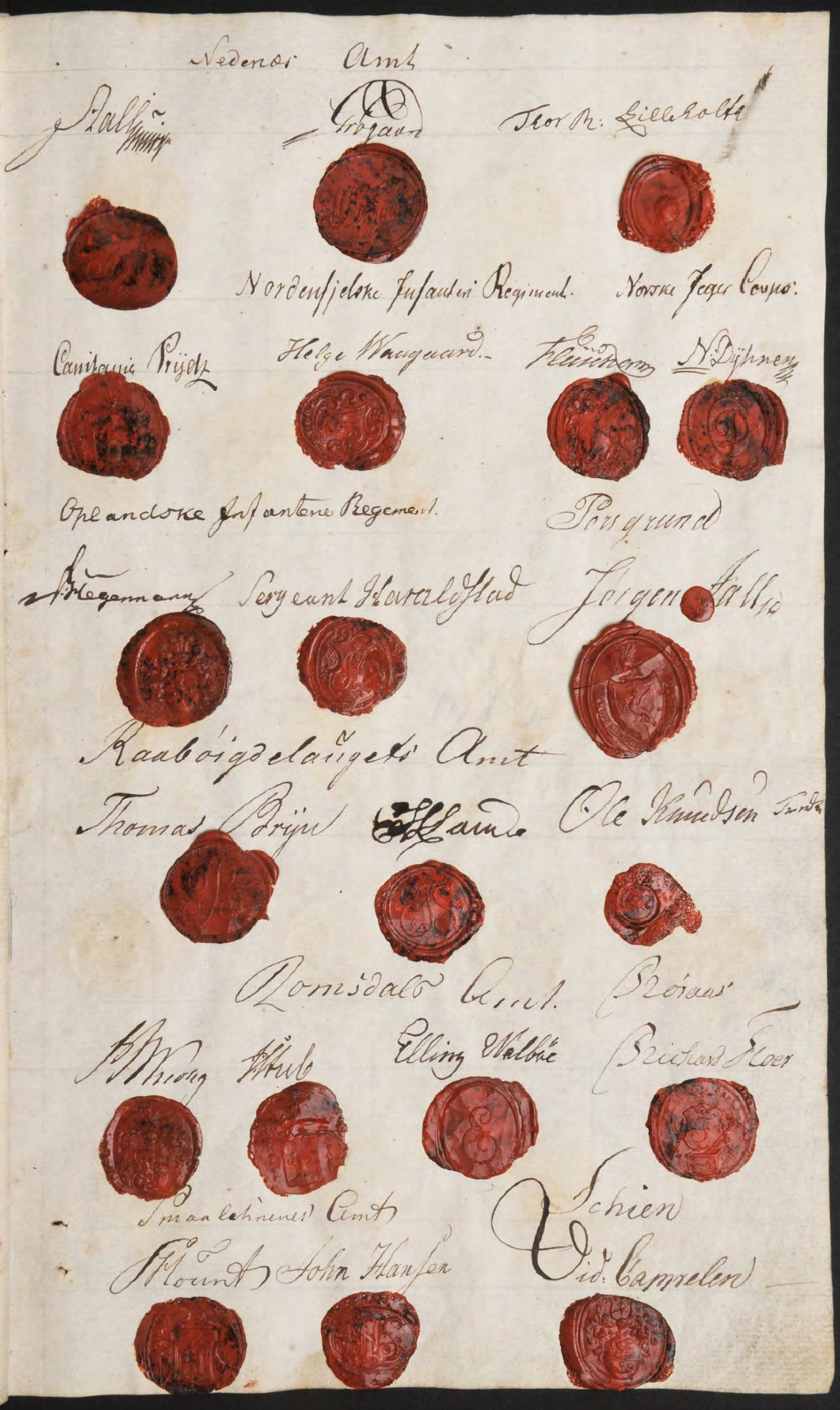 Norwegian Constitution dated 17. mai 1814 page 35